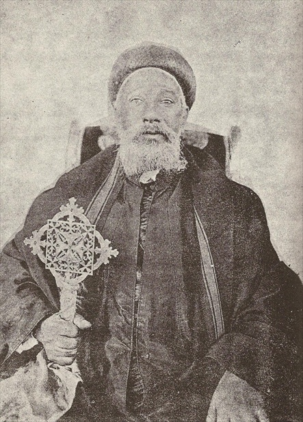 Abune Matewos